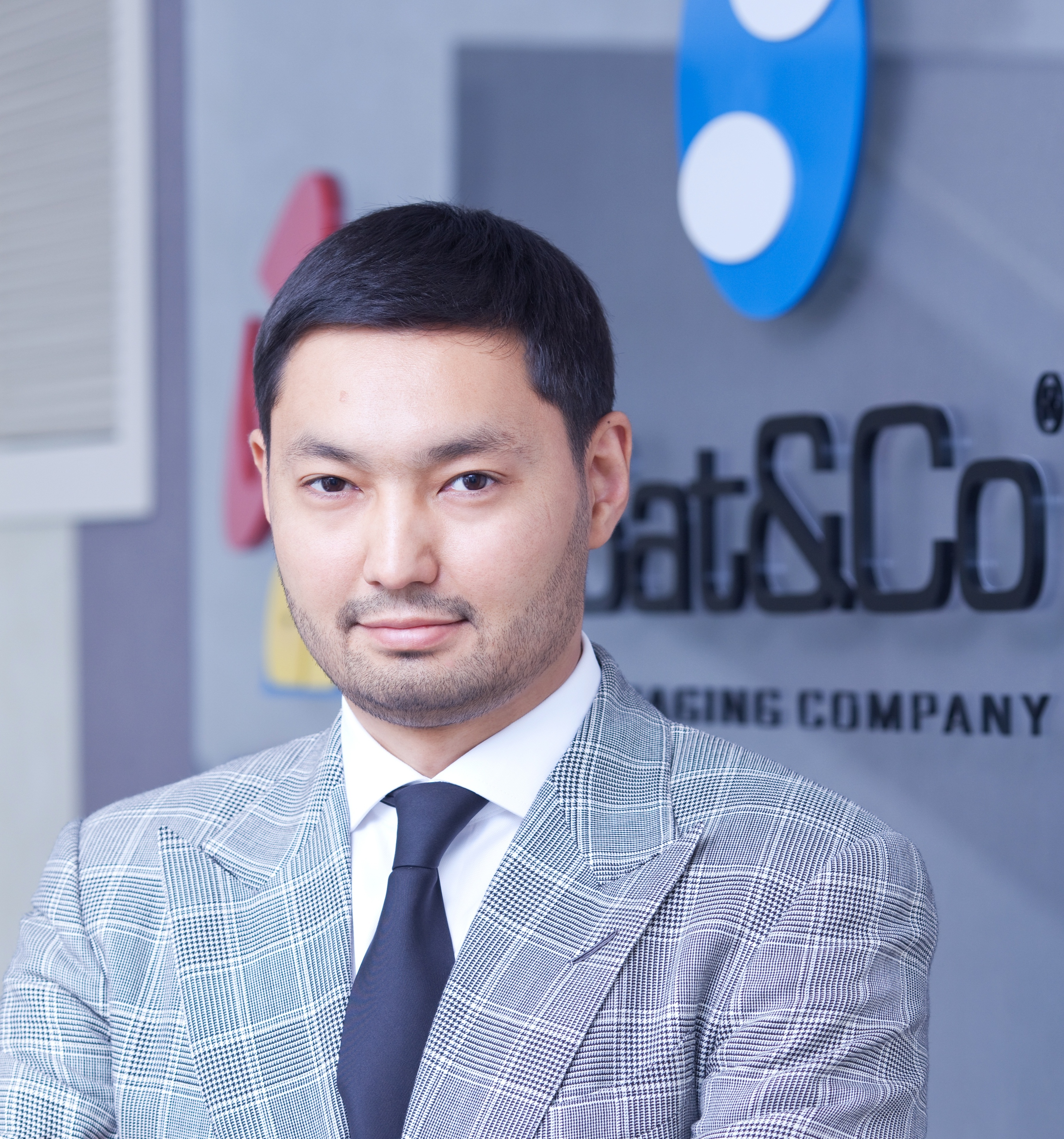 Same image, cropped